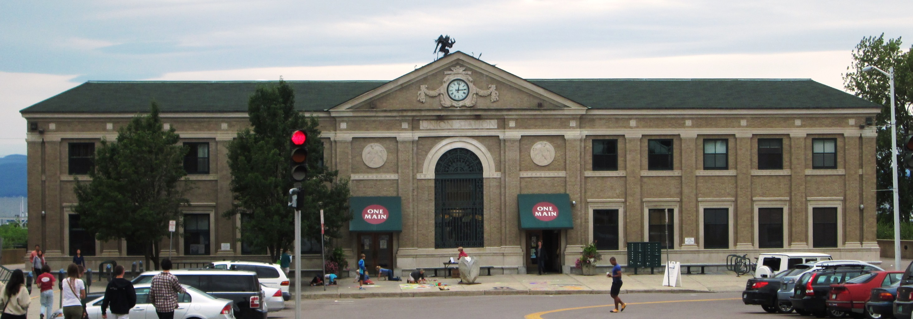 Union Station located at 1 Main Street at Lake Street in Burlington, Vermont was built in 1916 and was designed in the Neo-Classical style by Alfred Fellheimer with Charles Schultz as supervising architect. It is part of the Battery Street Historic District. (Source: [1])